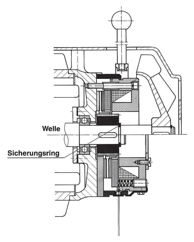 Profile of a Safety Brake